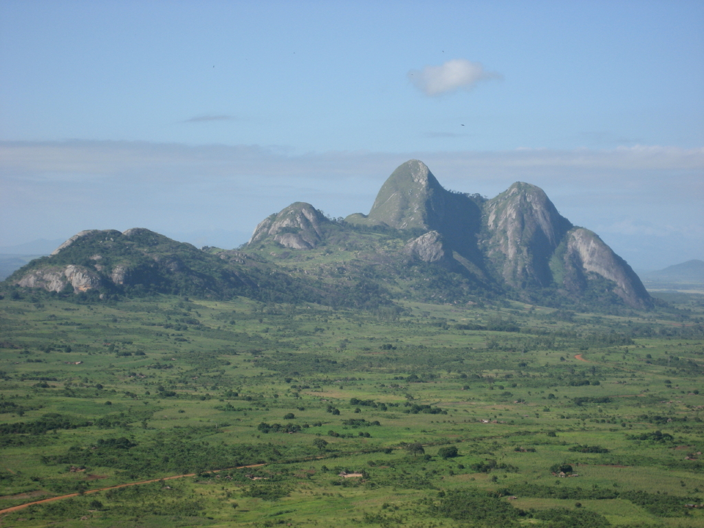 Mount Zembe in Mozambique seen from the North.